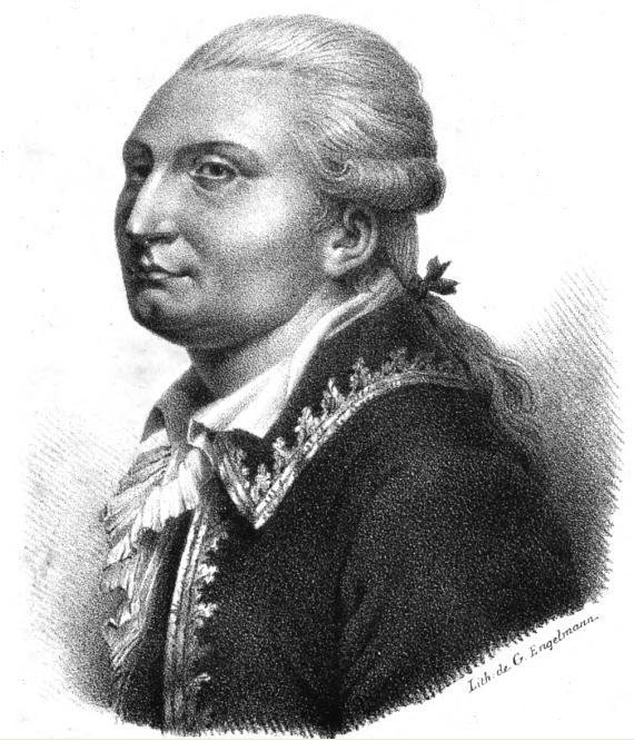 Portrait of François-Apolline, Earl de Guibert (1744-1790), French strategist and writer